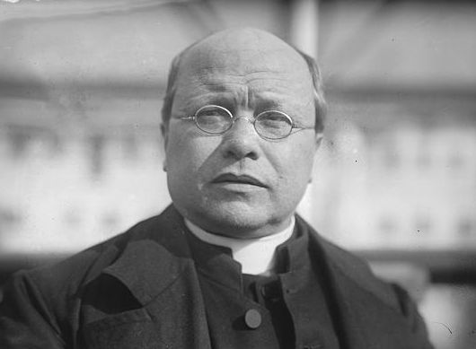 Tommaso Pio Boggiani, a Cardinal of the Roman Catholic Church and former Archbishop of Genoa